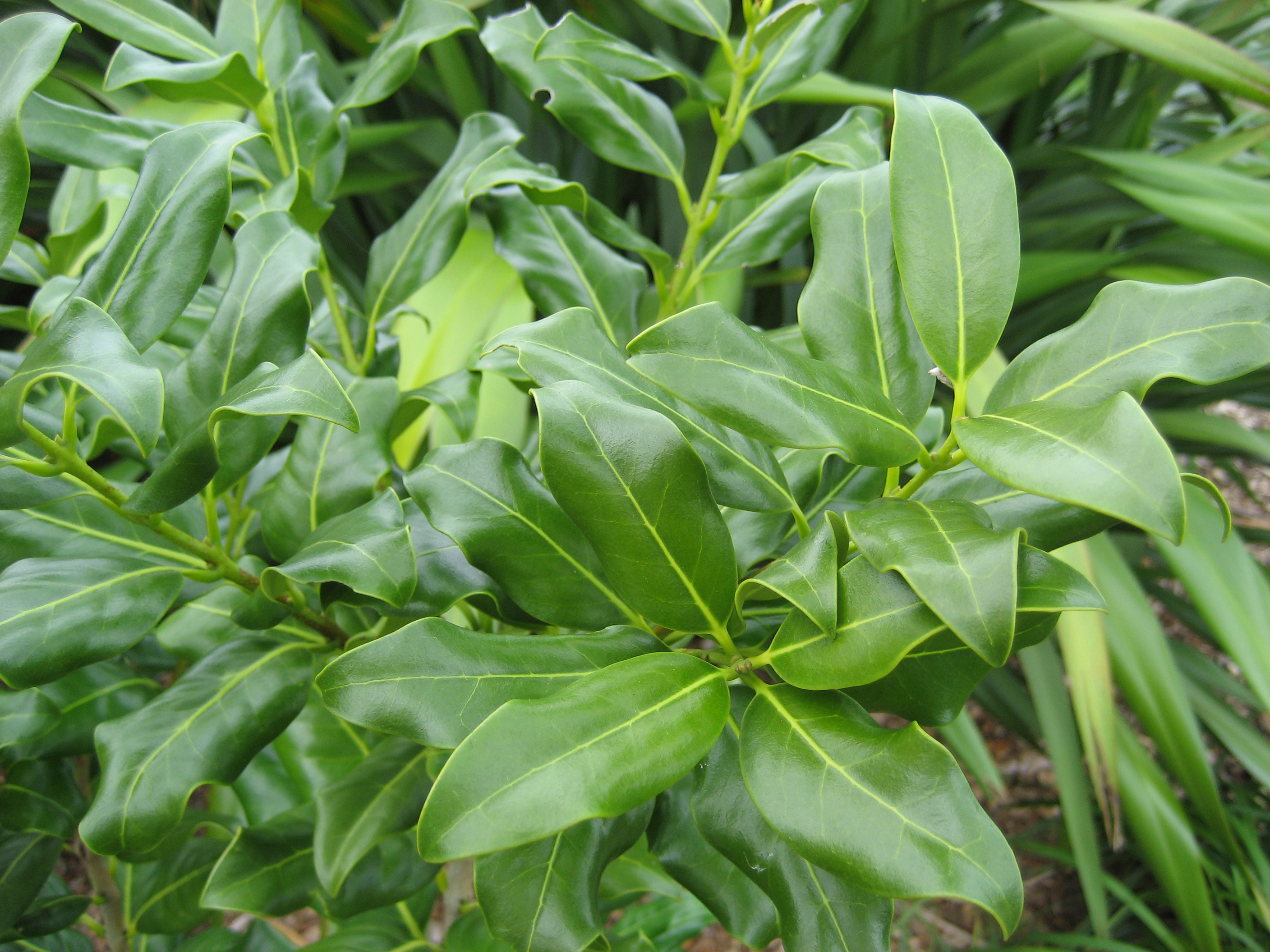 foliage of Nestegis apetala, Coastal Maire tree, being grown for sale in Auckland, New Zealand. Known as Ironwood in Norfolk Island.